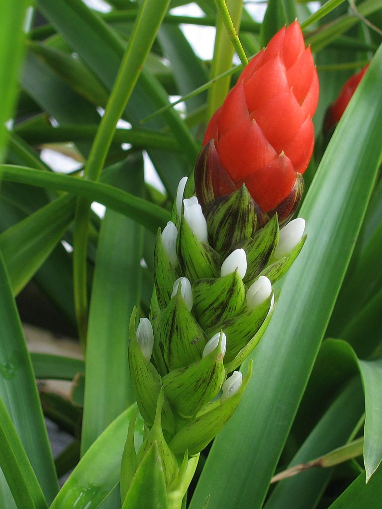 Guzmania monostachia, in cultivation at the Botanical Garden of Heidelberg, Germany.